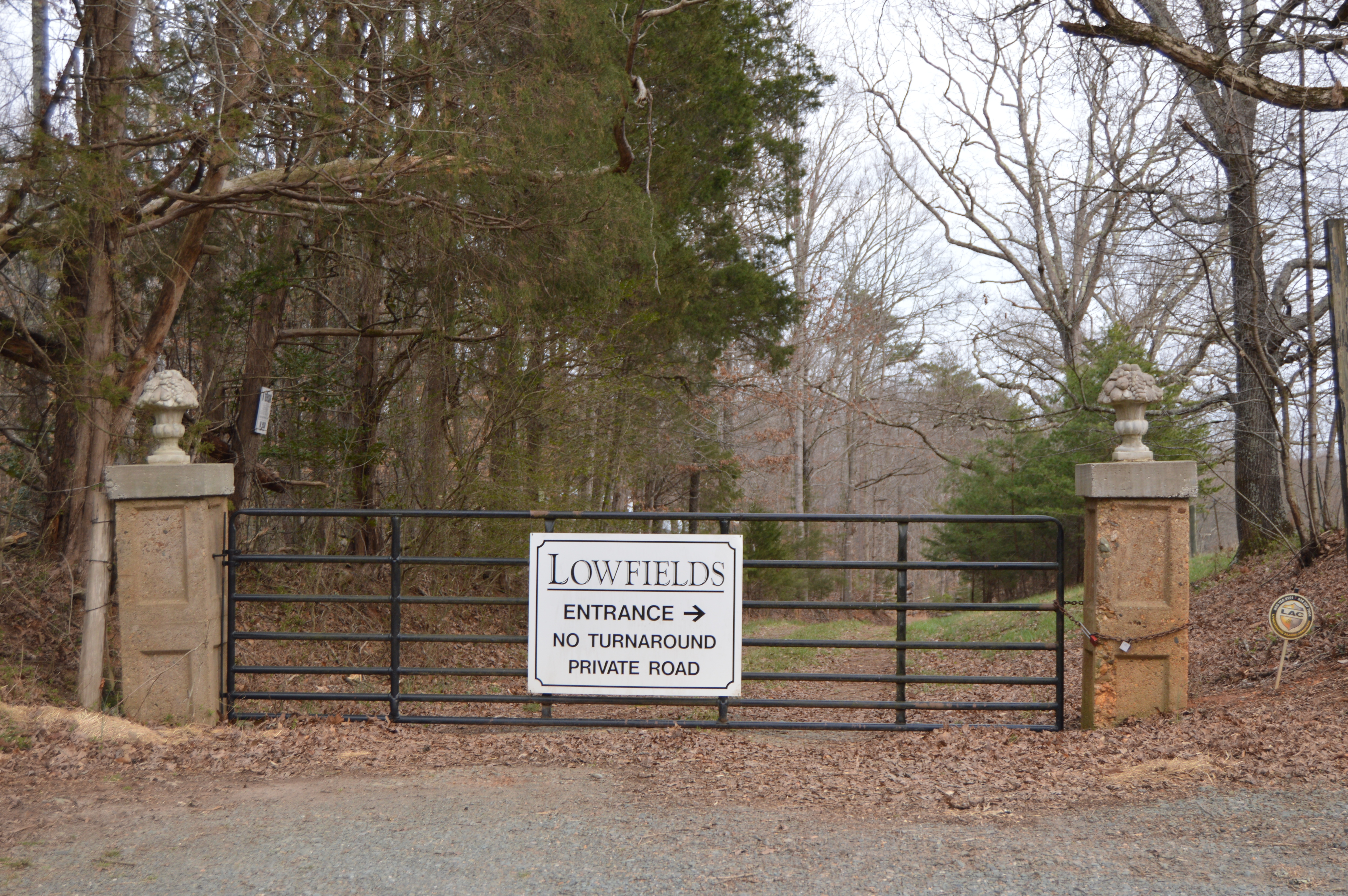 Gate at the entrance to the Western View estate, located on Lowfields Lane west of Bremo Bluff in Fluvanna County, Virginia, United States. The estate is listed on the National Register of Historic Places.